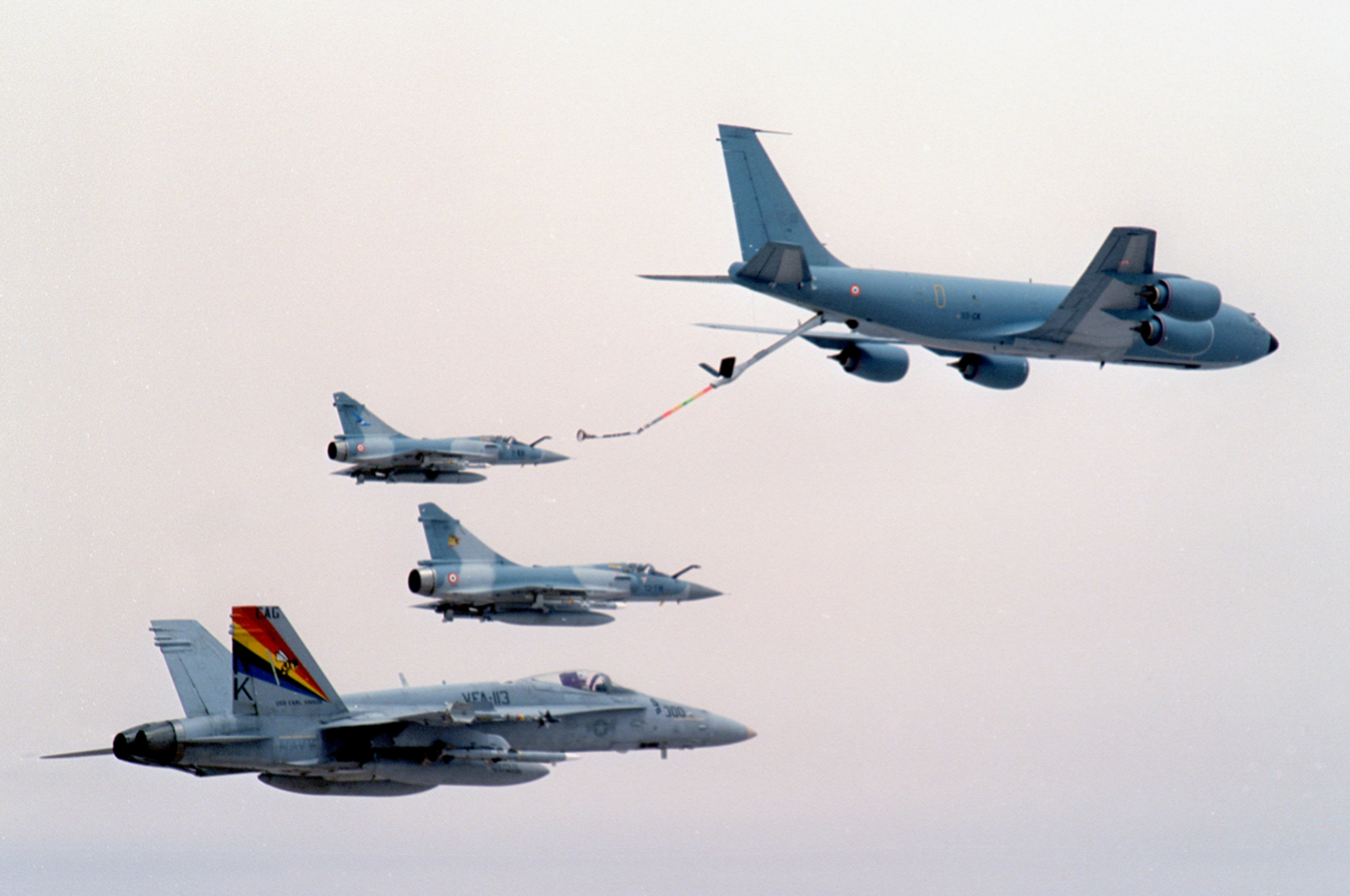 A U.S. Navy McDonnell Douglas F/A-18C Hornet (BuNo 164640) of Strike Fighter Squadron VFA-113 Stingers, piloted by Lt. William Ipock, waits in line with two French Mirage 2000's to conduct air-to-air refueling with a French Boeing KC-135F tanker aircraft during "Operation Southern Watch" on 23 April 1994. The F-18 wears the markings of the Air Wing Commander (CAG) of Carrier Air Wing 14 (CVW-14), which was deployed aboard the aircraft carrier USS Carl Vinson (CVN-70) to the Western Pacific and the Indian Ocean from 17 February to 17 August 1994.